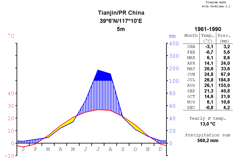 climate chart of Tianin, China, for the period of time from 1961 to 1990, in the format by Walter and Lieth, metric, °Celsius and millimeters, chart made with Geoklima 2.1, label in English